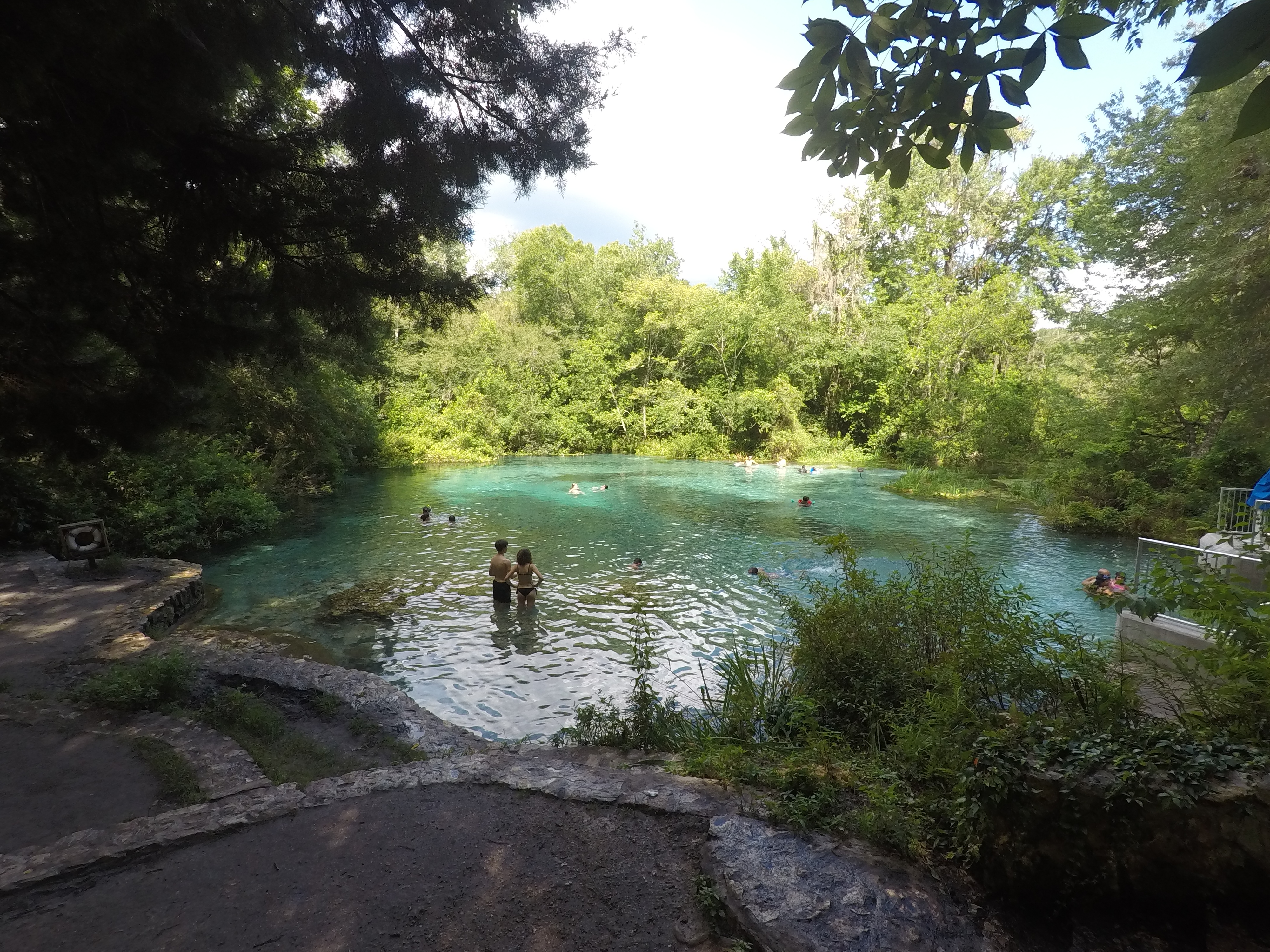 An afternoon at Head Spring